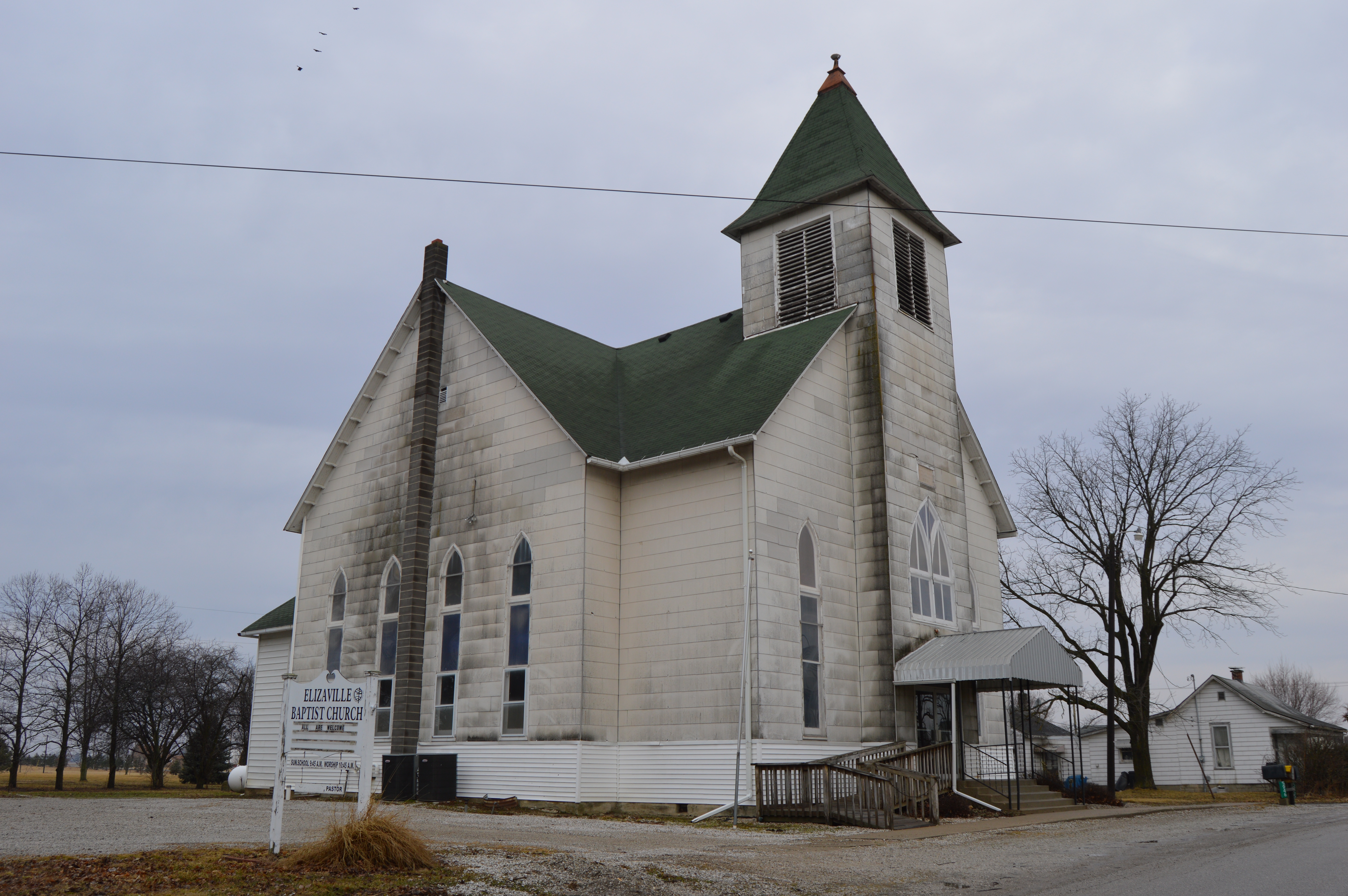 Front and southern side of the Elizaville Baptist Church, located at 5946 Howard Street in Elizaville, Indiana, United States. It was built in 1894.